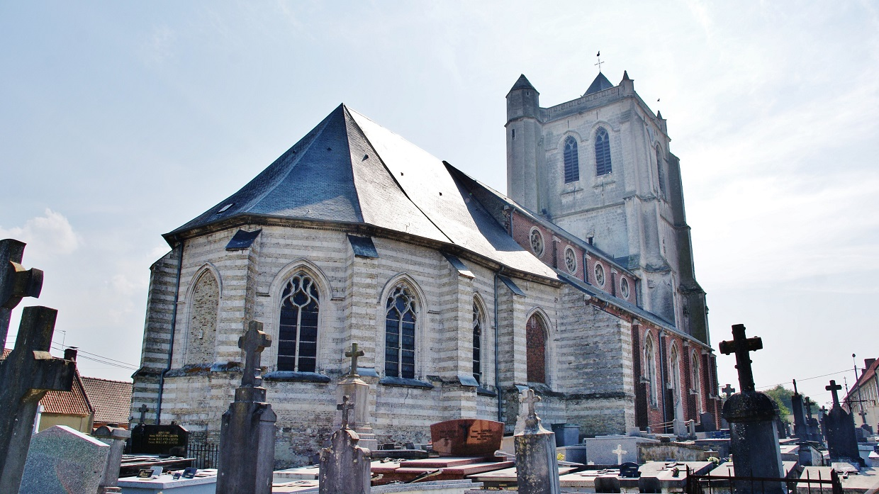 église St Leger